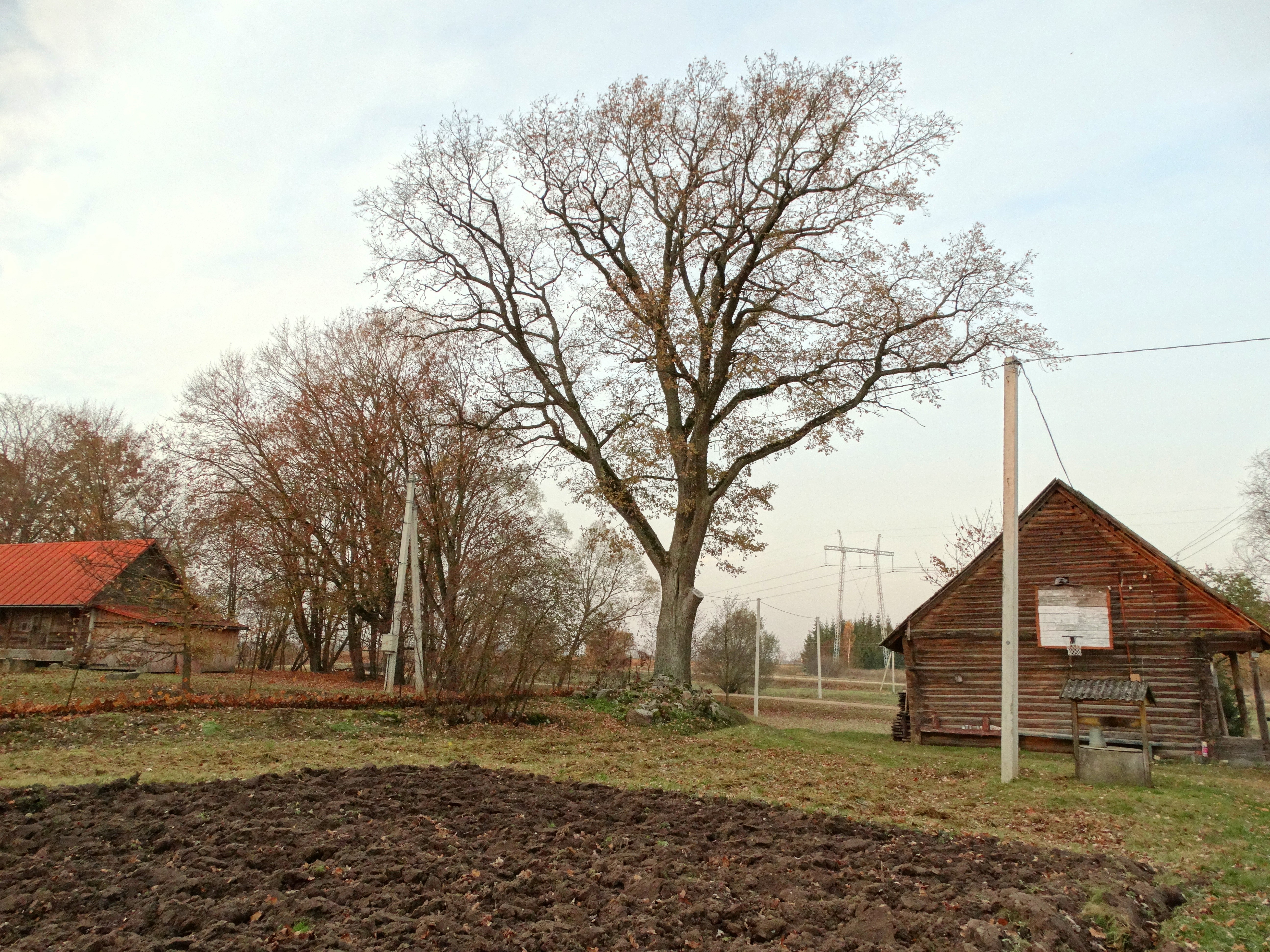 Oak tree in Šlamai, Pasvalys District, Lithuania